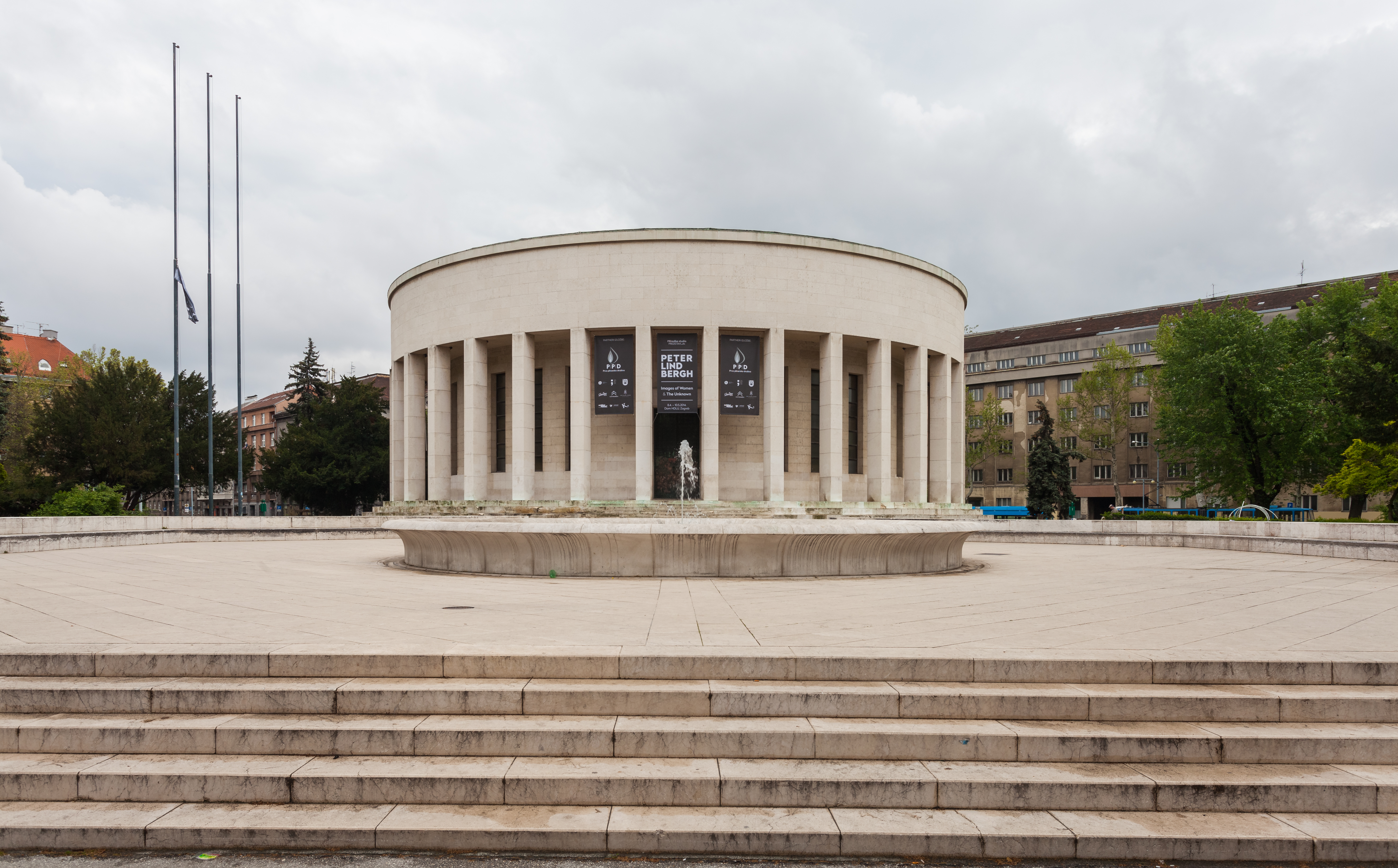 Meštrović Pavillon, Zagreb, Croatia